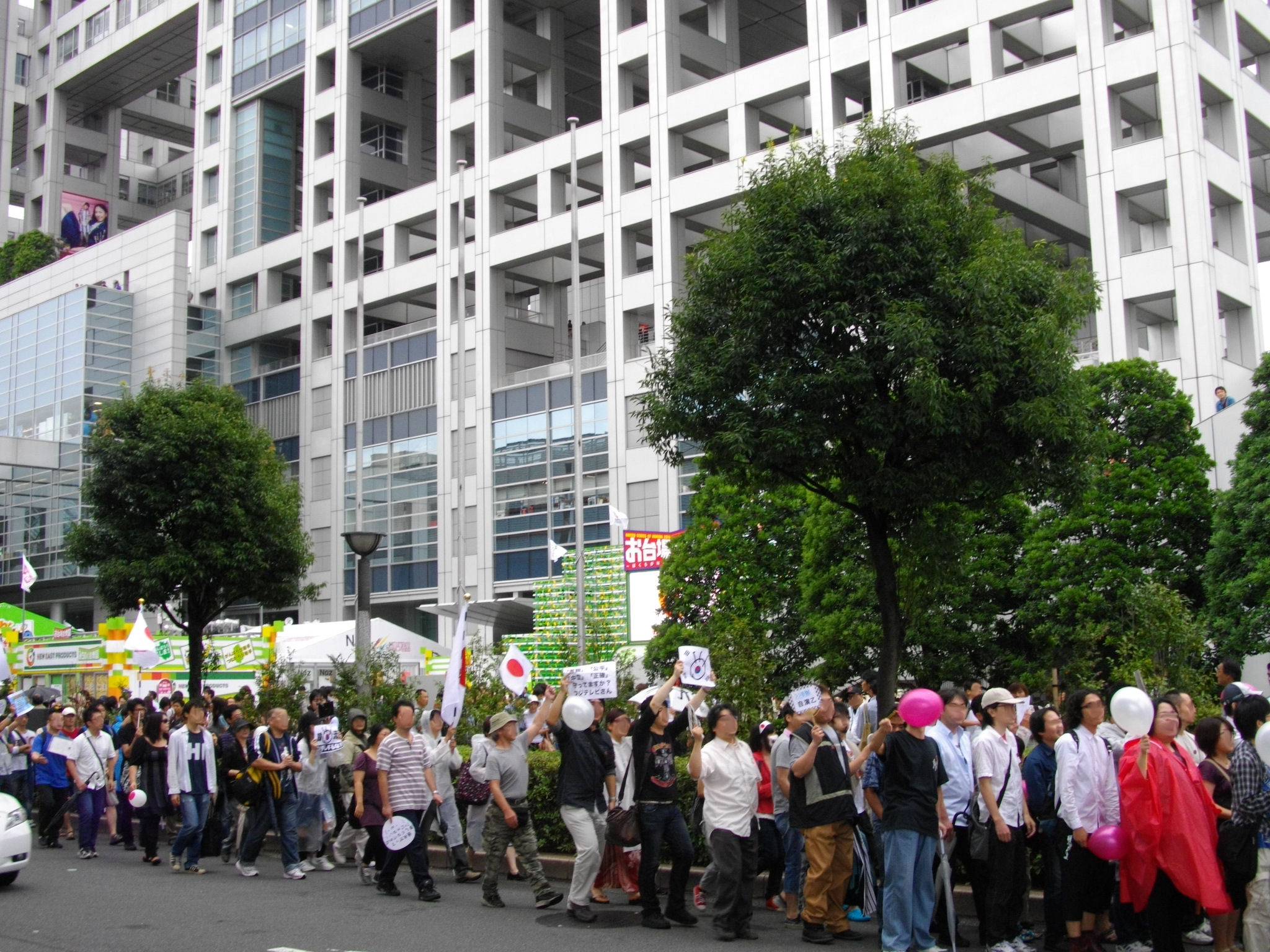 Anti-Fuji Television rally on 21 August 2011 at Odaiba